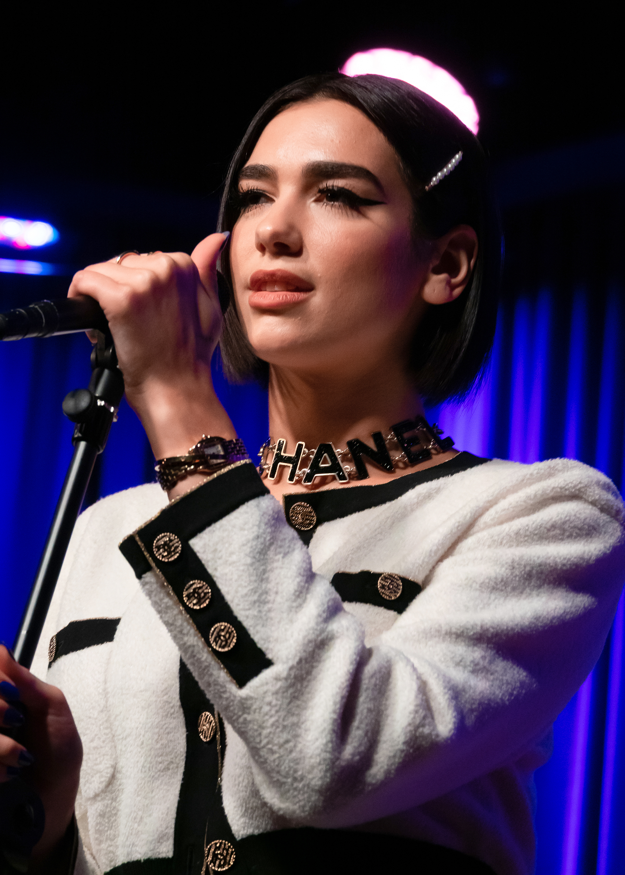 Dua Lipa interview and live performance at the Grammy Museum in Los Angeles, California, on Friday, September 28, 2018.